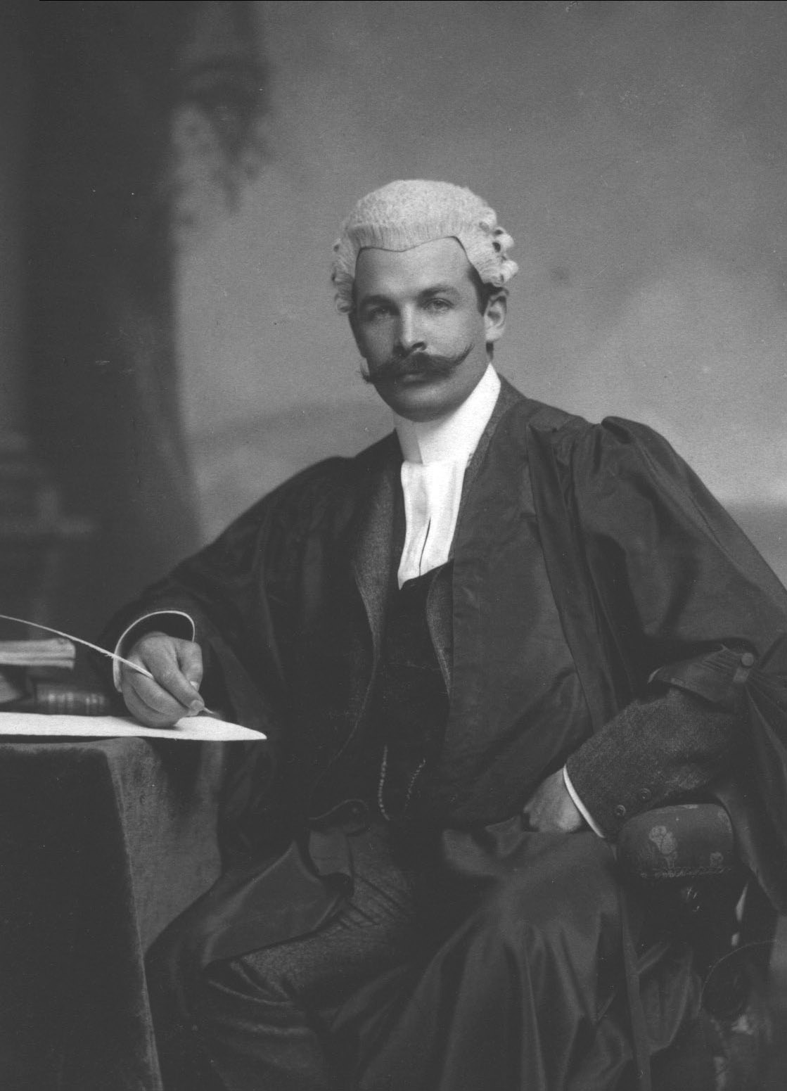 Dr. Willem Eduard Bok (1880-1956), South African lawyer, dressed in barrister's robes and wig.